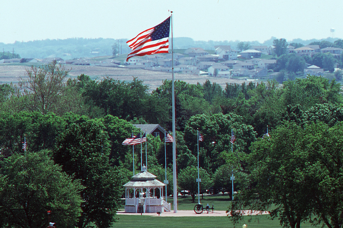 Flag flying over the parade field at Offutt AFB, Nebraska. The city of Bellevue, Nebraska is seen in the background.